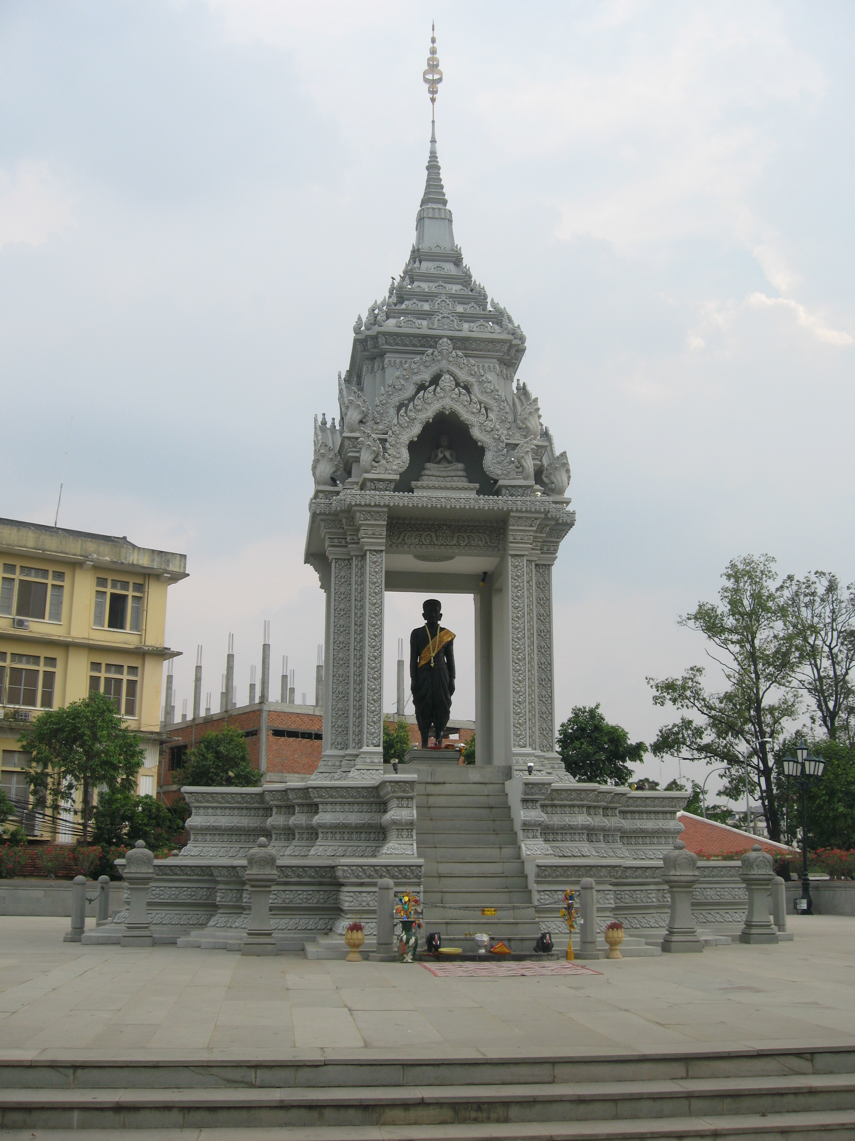 A statue of Lady Penh (Yeay Penh) near Wat Phnom